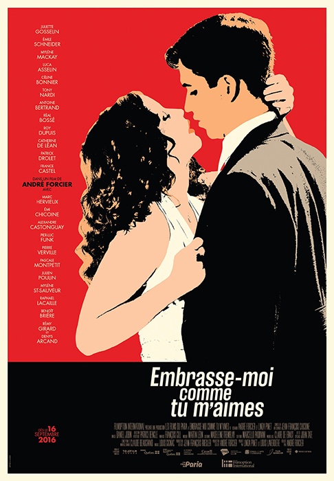 Poster of the movie Kiss Me Like a Lover (Q28494295)